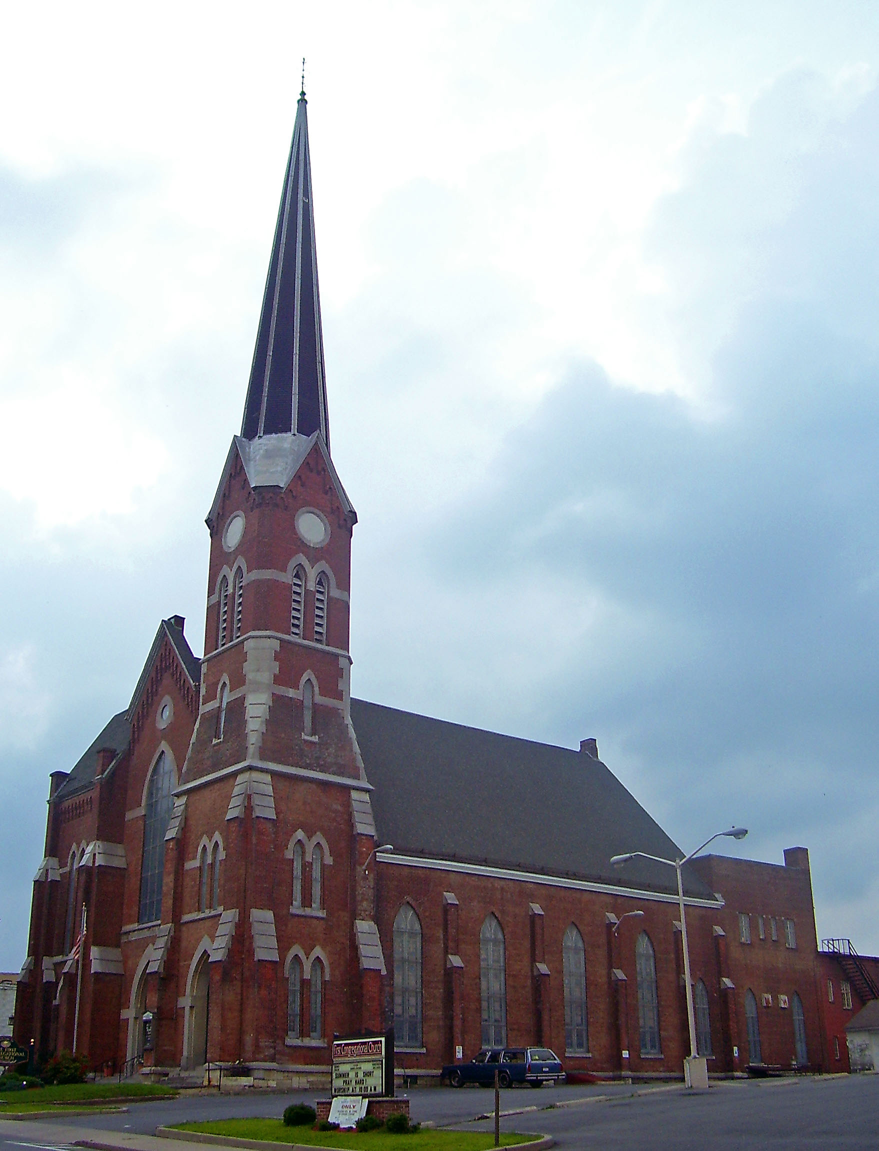 First Congregationalist Church of Middletown, NY, USA